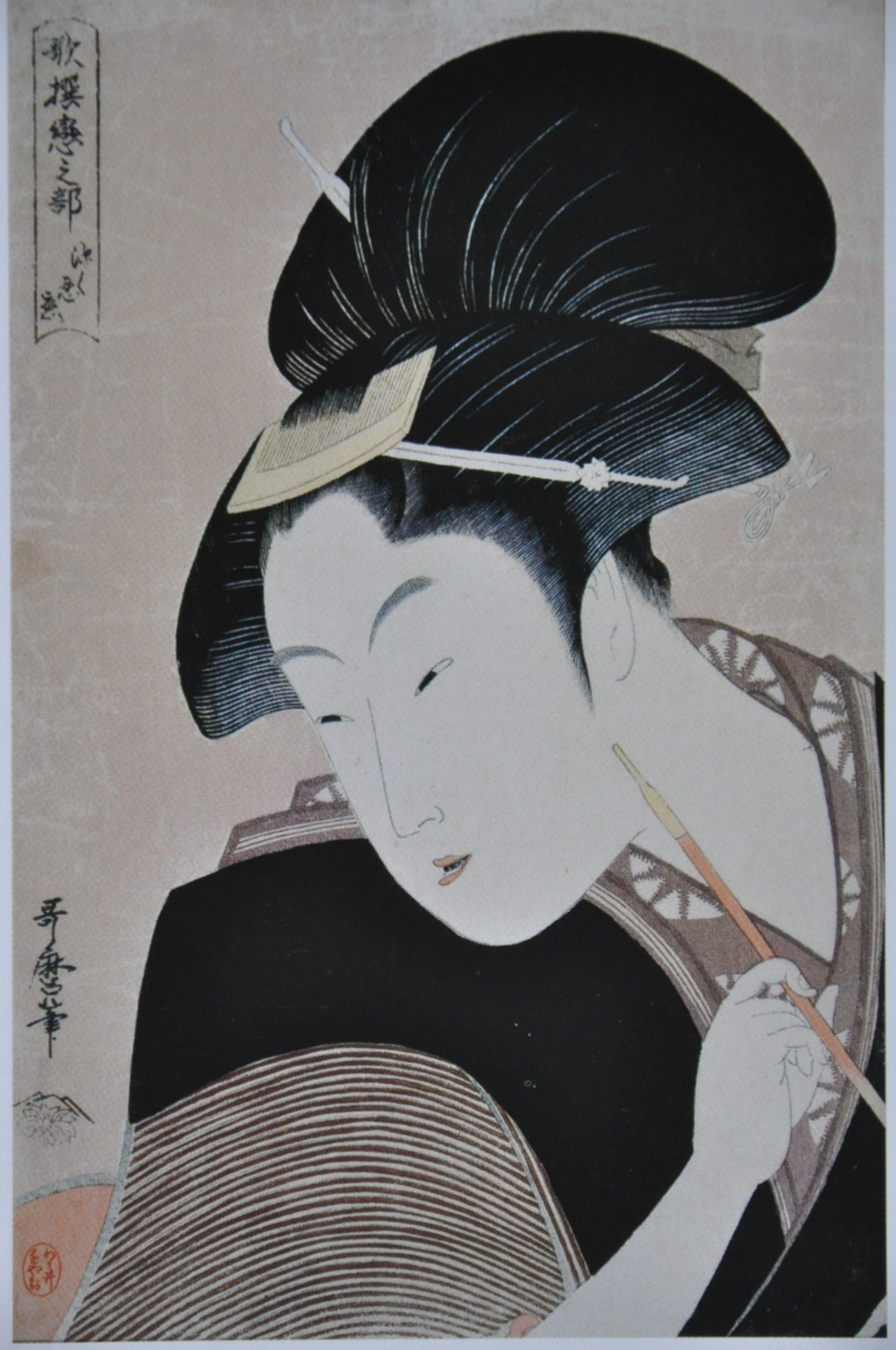 Amour profondément caché, by Utamaro. Mica background (kira-e). Nishiki-e ca. 1793-1794.